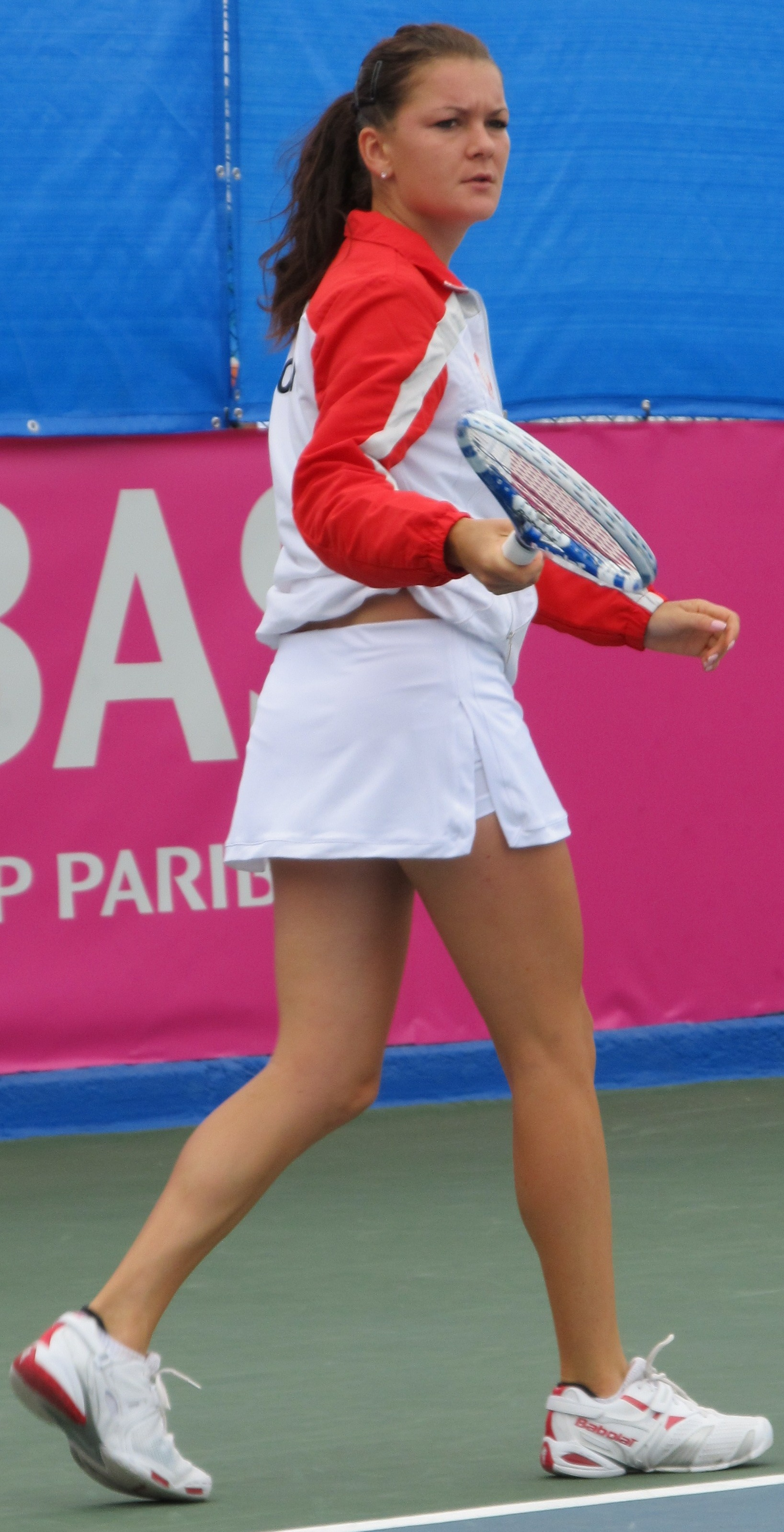 The tennis player Agnieszka Radwańska of Poland during her match against Victoria Azarenka of Belarus in the fourth day of Fed Cup Group I 2011 Europe/ Africa in Eilat, Israel